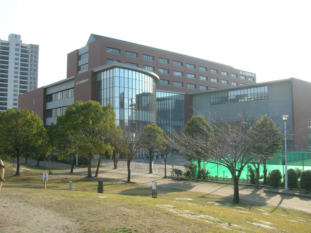 Nagoya Gakuin University, Nagoya campas. Loc: Atsuta-ku, Nagoya city, Aichi Prefecture, Japan 名古屋学院大学・名古屋キャンパス。 撮影場所 愛知県名古屋市熱田区・白鳥公園。